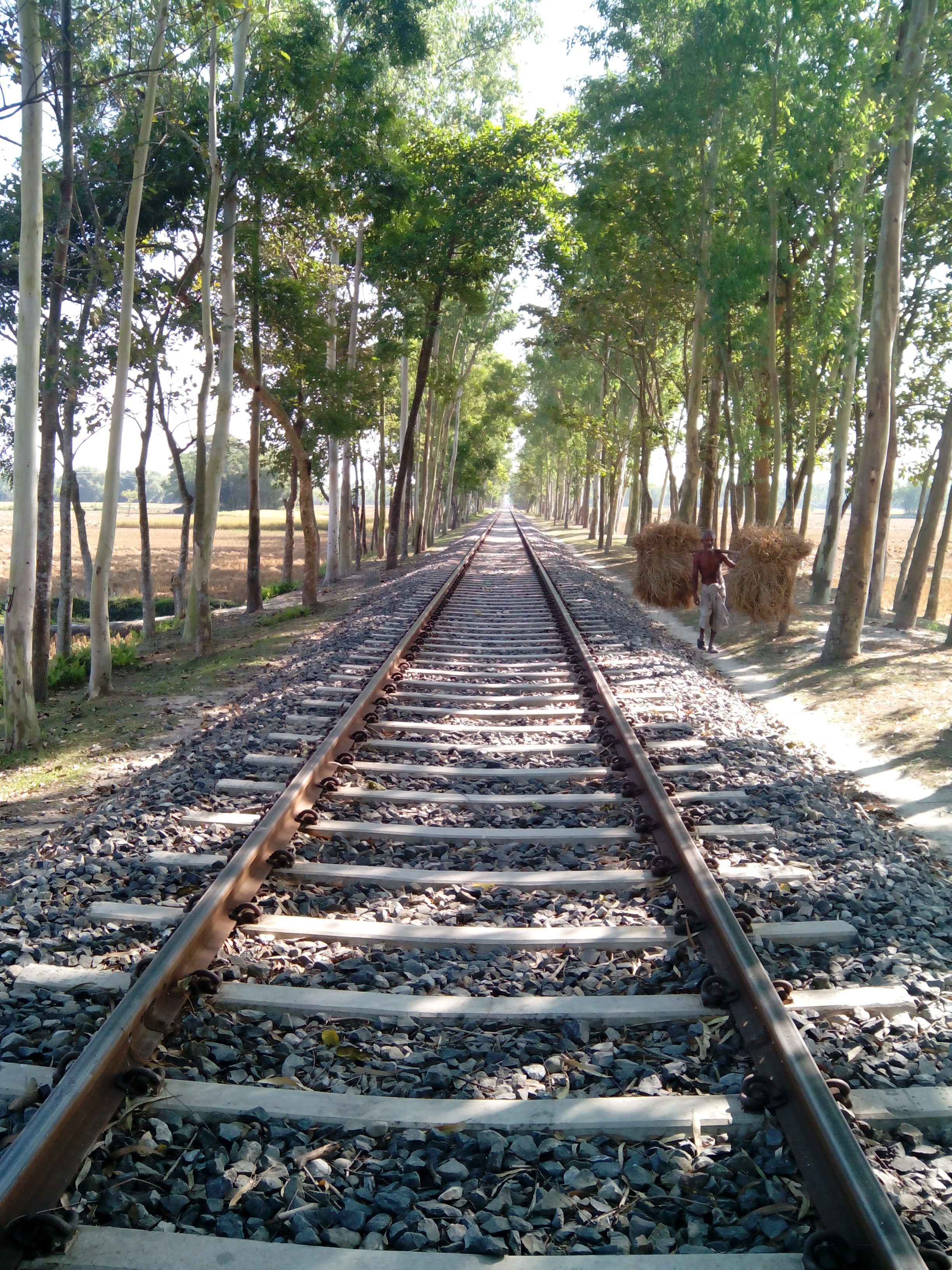 Nilphamari-Chilahati Railway line, Domar Upazila